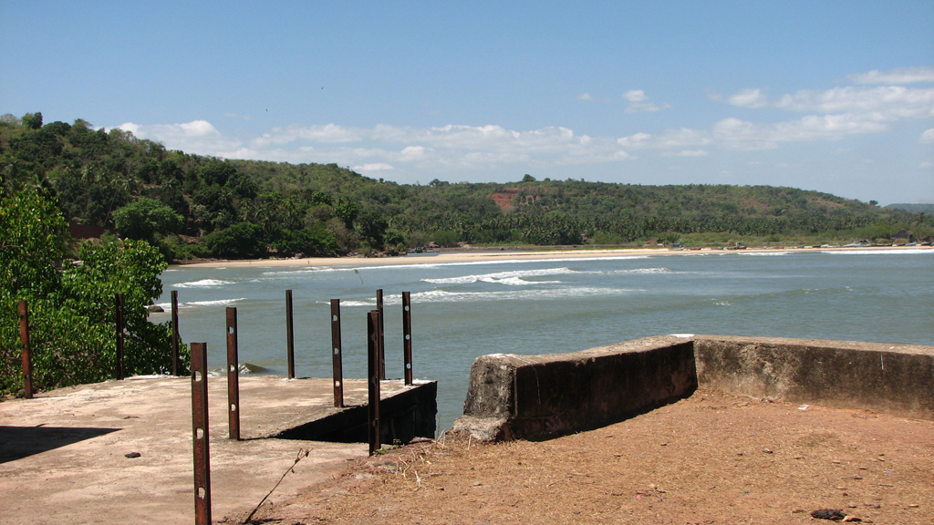 Nilesh Sutar